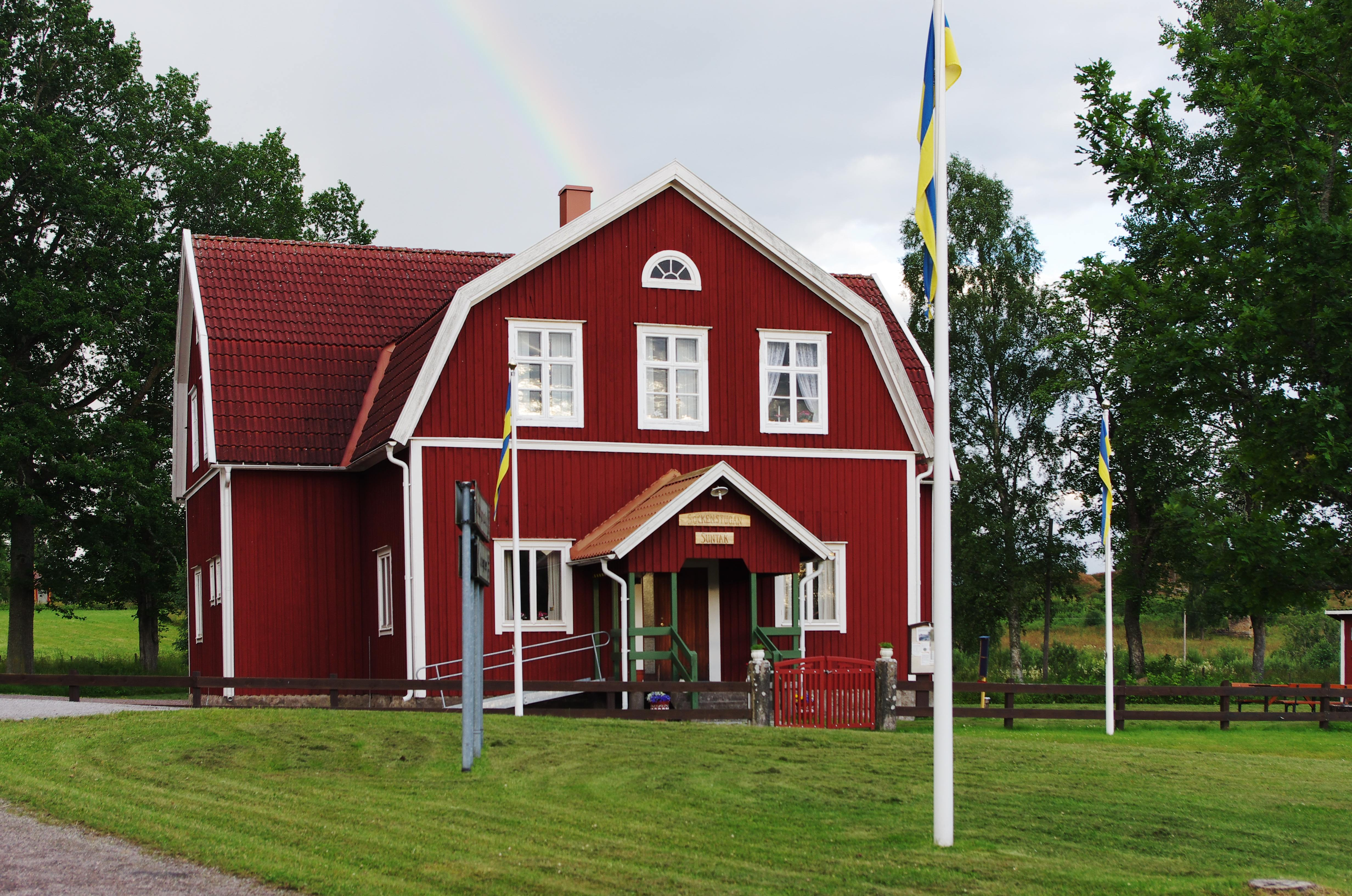 Suntak village in Tidaholm municipality, Sweden